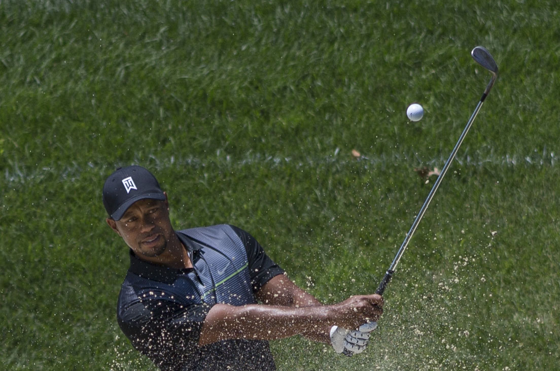 Tiger Woods practices at the Quicken Loans National golf tournament at Congressional Country Club on June 24, 2014 in Bethesda, Maryland.